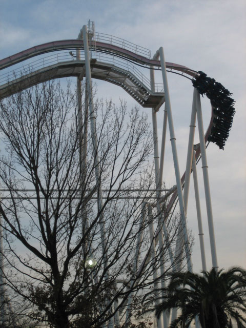 Orochi - Expoland - Osaka / Japan